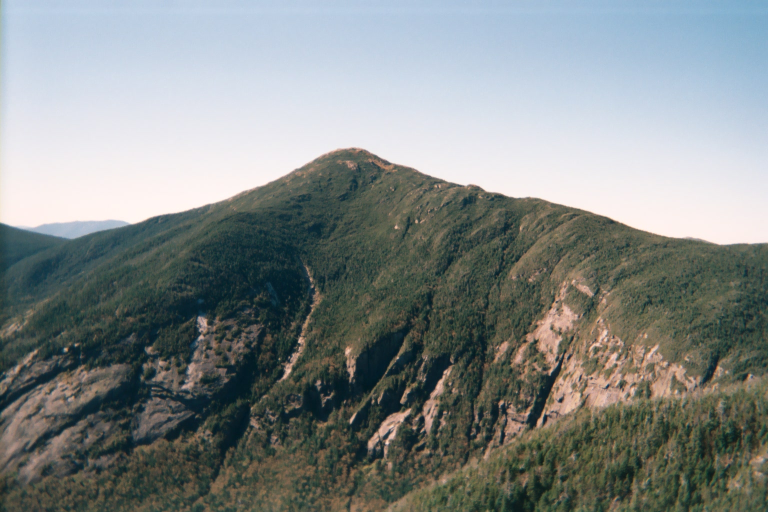 Mount Marcy in the Adirondacks mountain range, New York State, USA. Photo taken from Mount Haystack, looking across Panther Gorge.